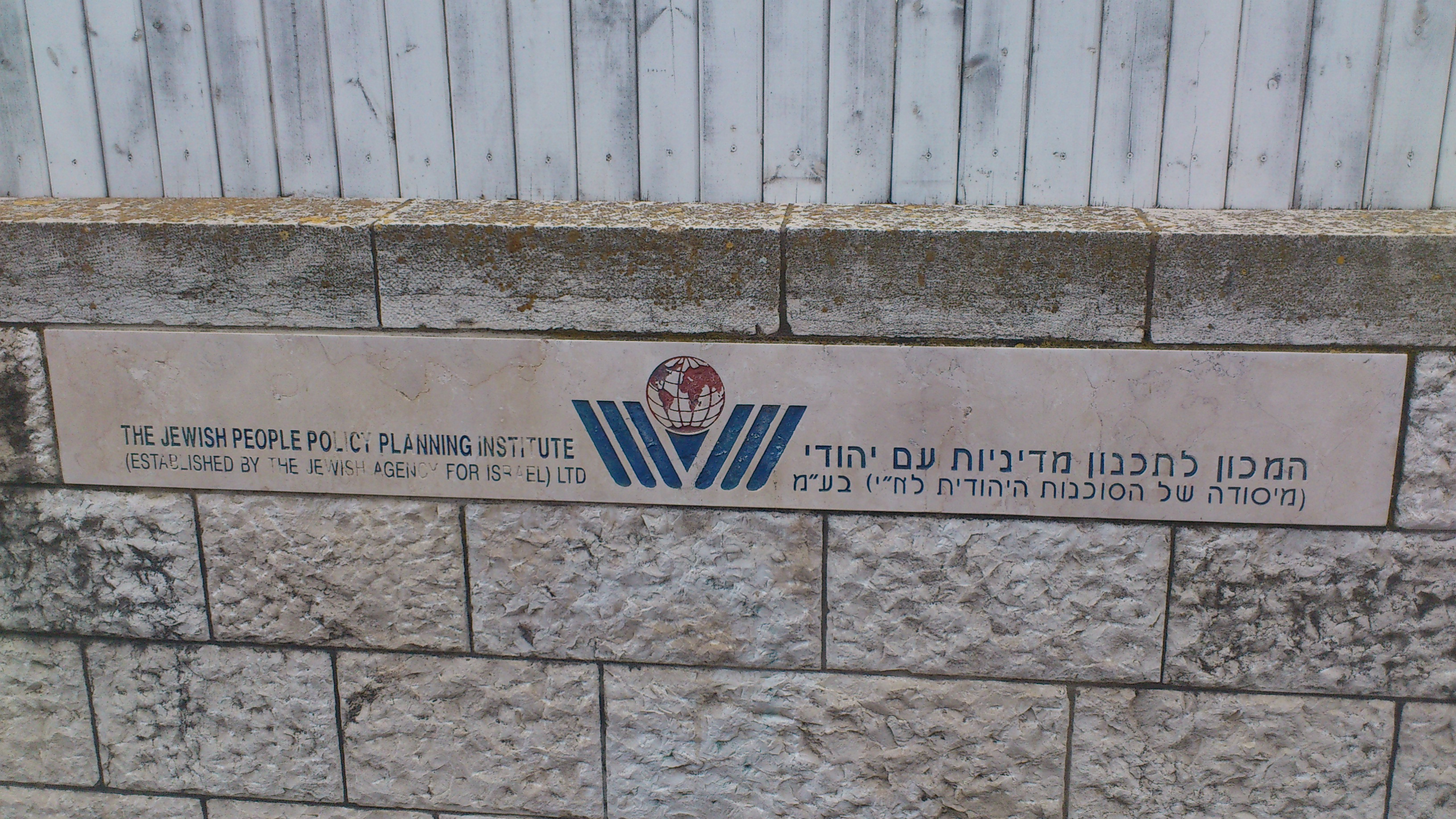 Jewish People Policy Institute